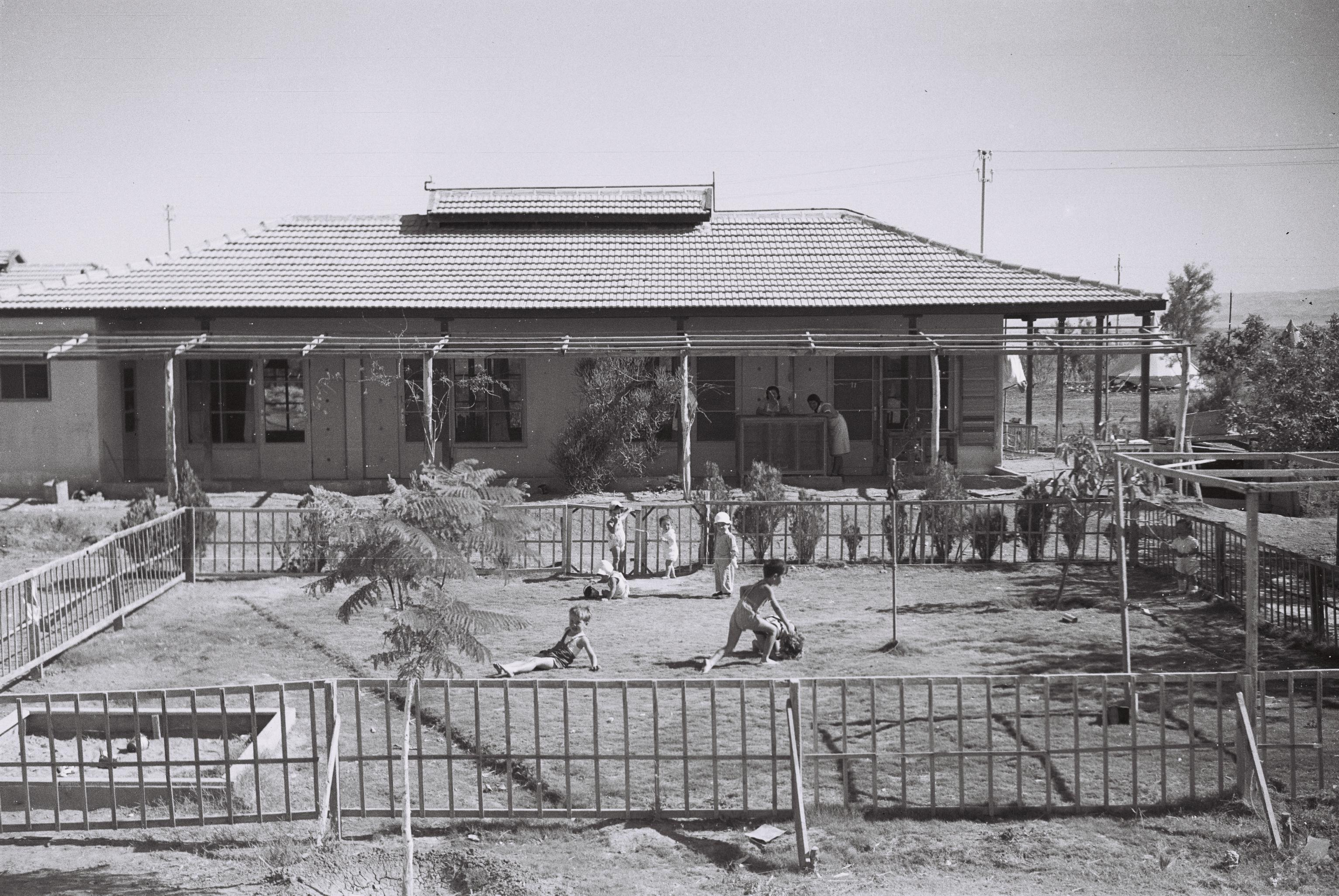 THE CHILDREN'S HOUSE AT KIBBUTZ BEIT HAARAVA. בית הילדים בקיבוץ בית הערבה.